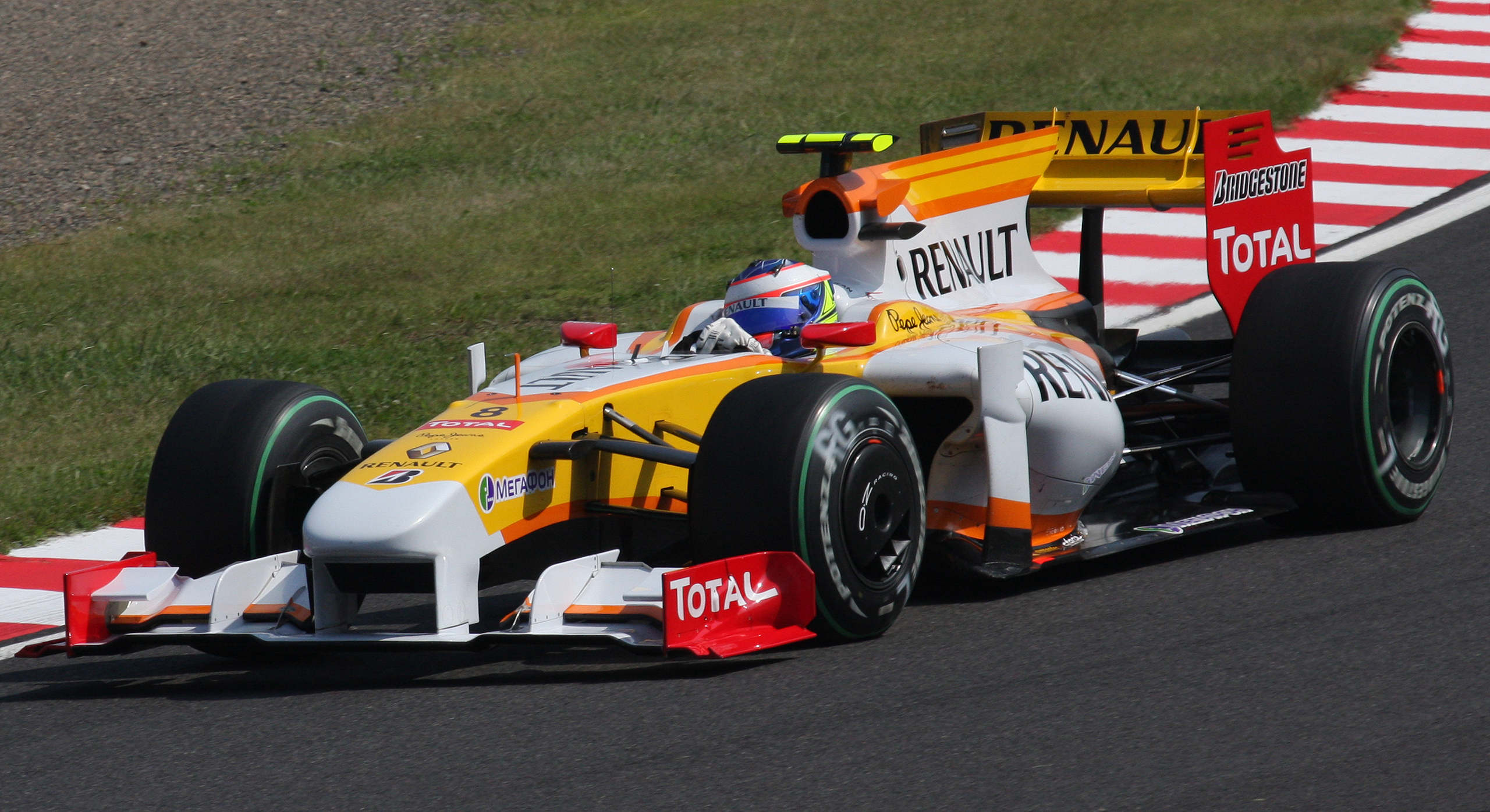 Formula One 2009 Rd.15 Japanese GP: Romain Grosjean (Renault) running in Saturday's third free practice session at the 2009 Japanese Grand Prix.